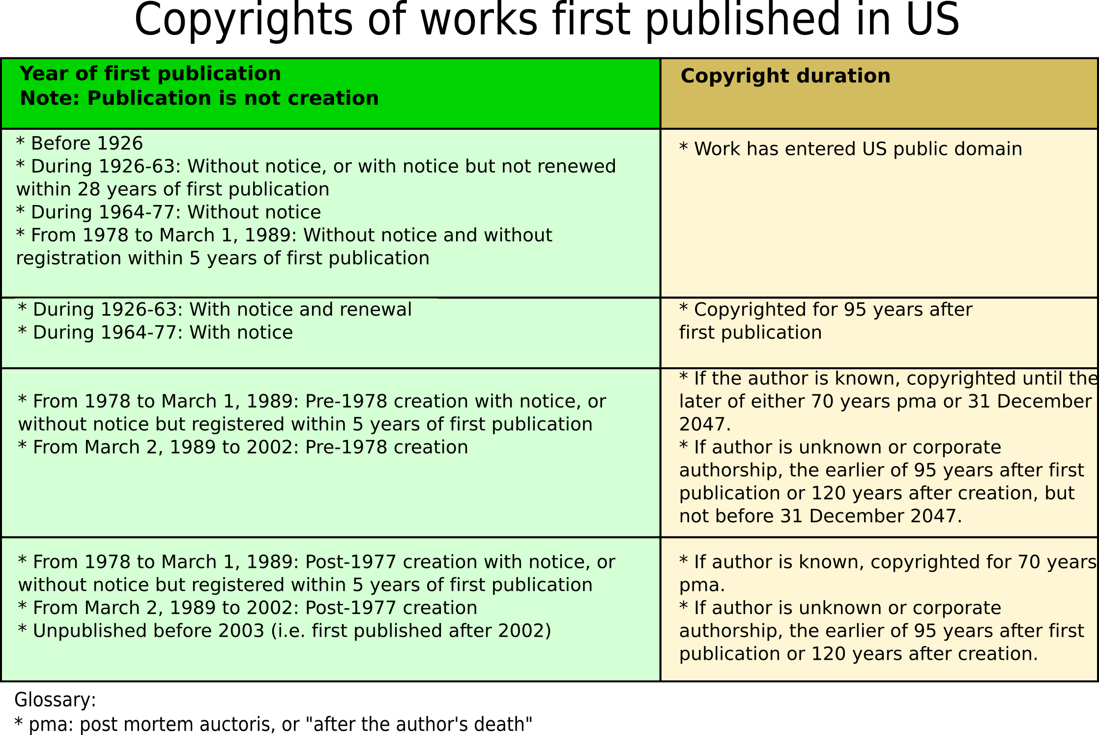 Updated PNG version of Jappalang's copyright table. Capitalized, centered, etc